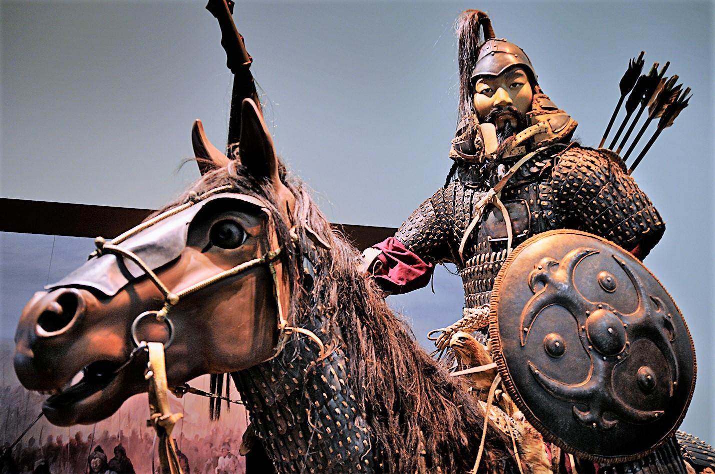 19 February - 10 April 2011 Go on a journey back to 13th century Mongolia with stunning re-creations of Mongolia’s grasslands and battlegrounds, complete with archaeological artifacts and weaponry of the Mongol Empire. With the largest collection of Genghis Khan artifacts ever assembled from the conqueror’s reign, it tells the story of the man whose innovation, technological mastery and cultural creativity gave him the reputation of one of the world’s greatest yet most misunderstood leaders. The exhibition will also shed light on the influence the Mongol empire had on culture, international law and finance even to this day. source: The ArtScience Museum